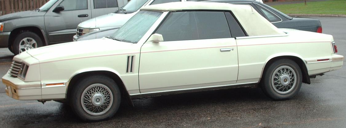 1983-1987 Dodge 600 photographed in Montreal, Quebec, Canada.